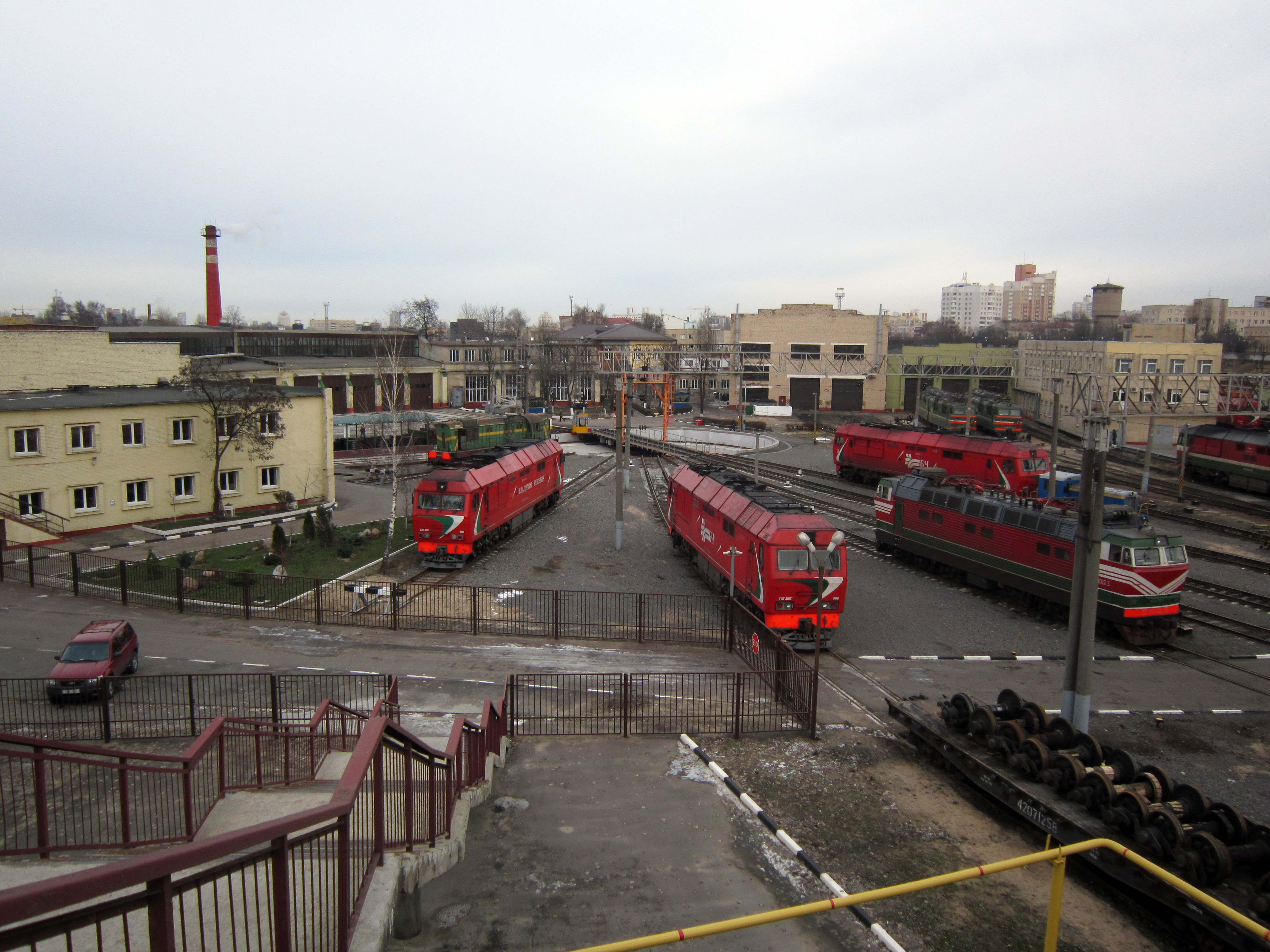 Rail transport turntable in locomotive depot "Minsk"